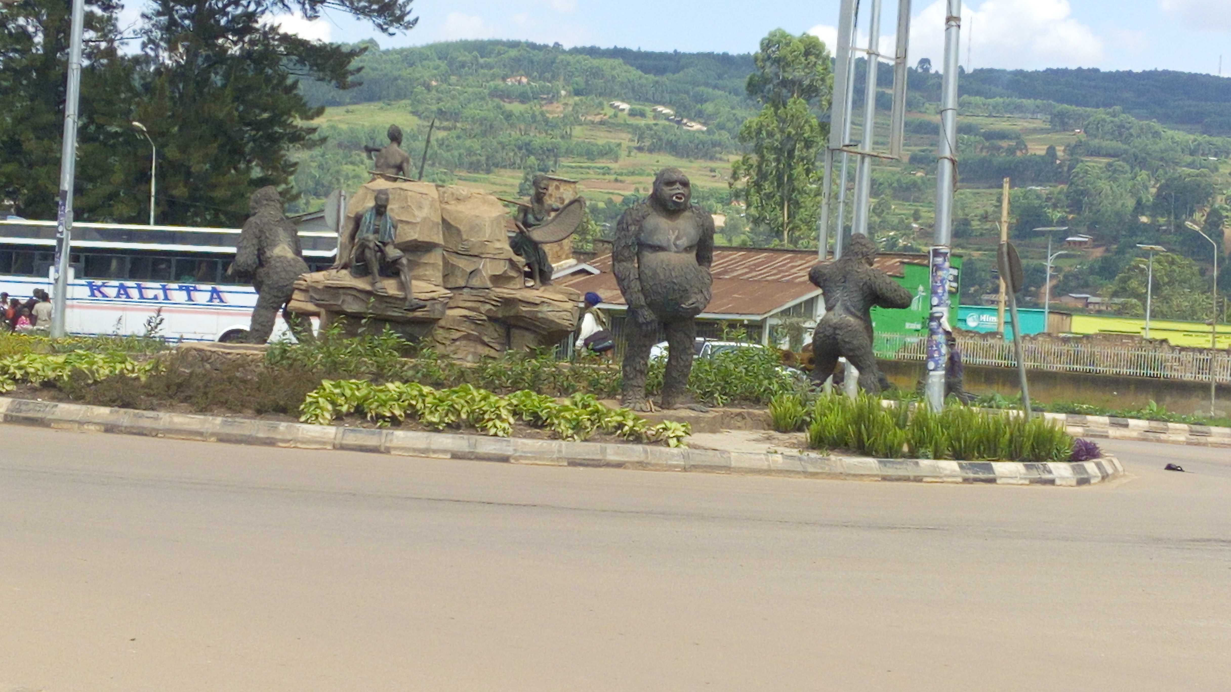 The Ape statue situated in the round about circle in Kabale District Uganda. The round about connects road from Kisoro, Rwanda and Mbarara. The statues indicates that Kabale District is a place for tourists attration.